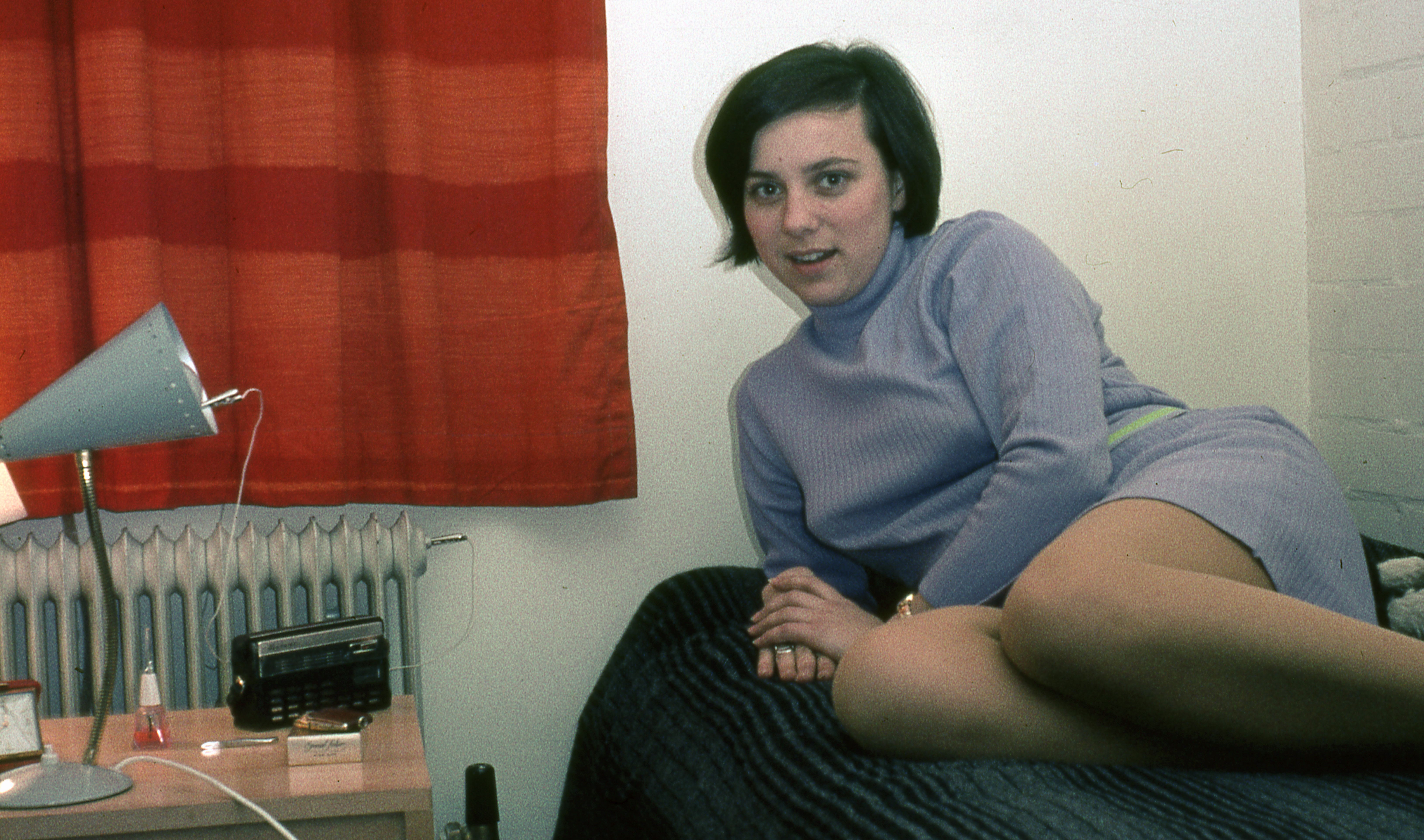 Crocodile clips attached radio to radiator and lamp. Rutherford College 1968